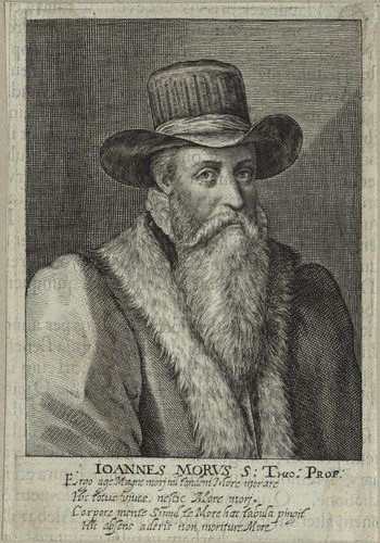 Line engraving of John More (d. 1592), clergyman in Norwich, England.